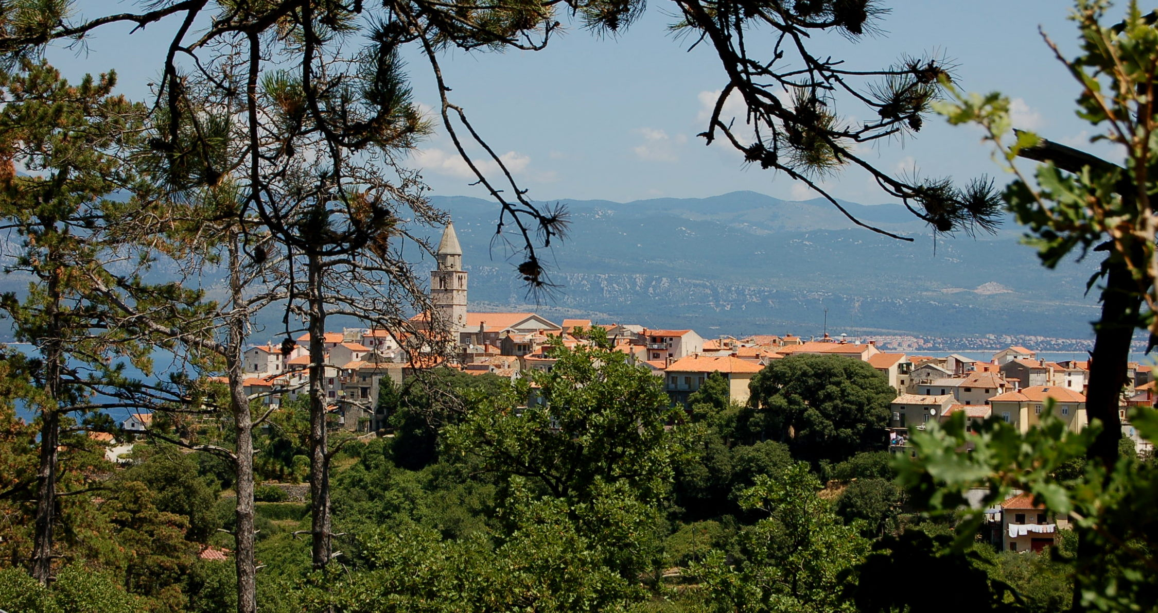 Vrbnik on the island of Krk, Croatia. View from southeast, with the mountains of mainland Croatia in the background